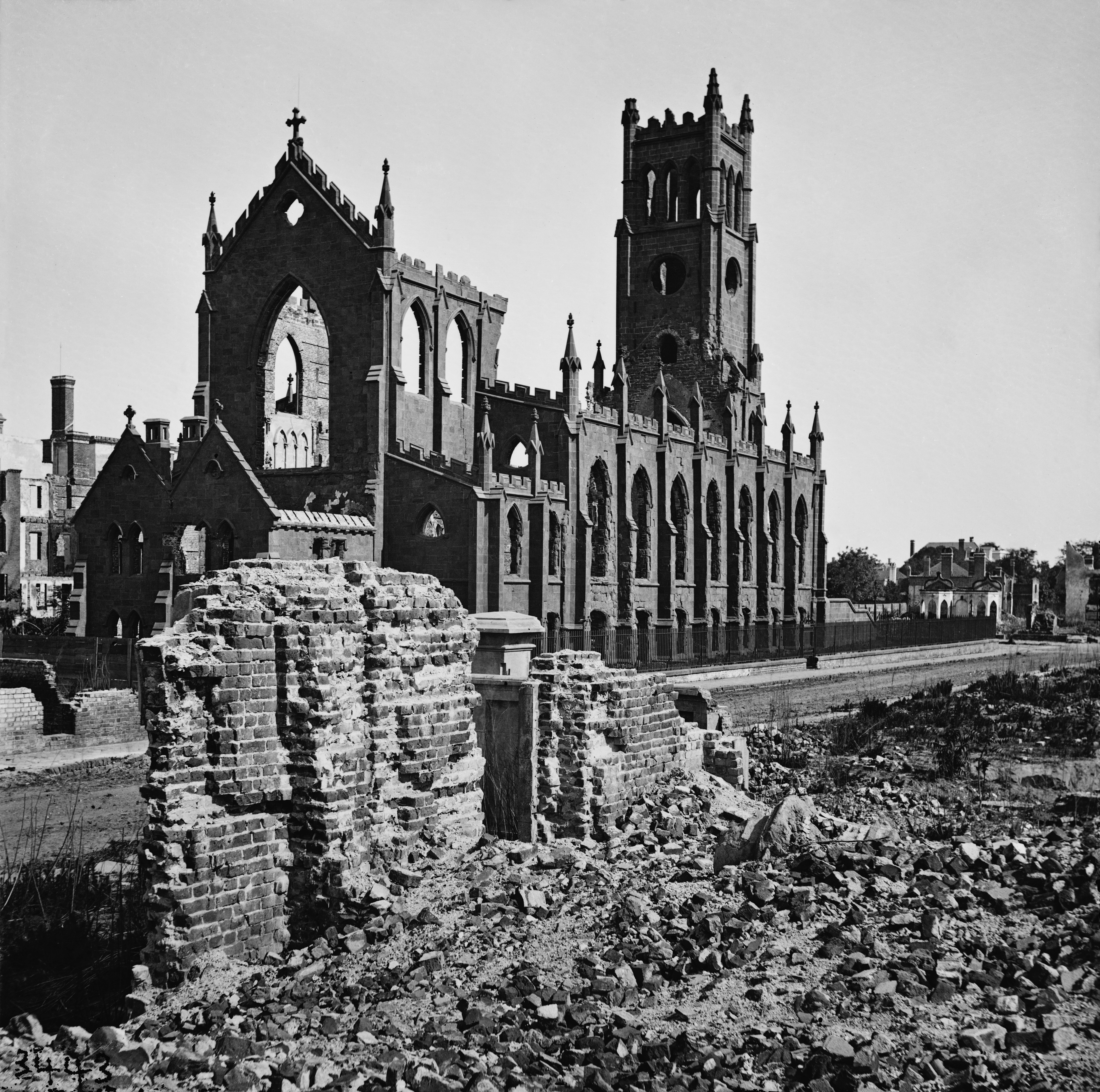 Cathedral of St. John and St. Finbar, Broad and Legare Streets, Charleston, South Carolina, after the Great Fire of December 1861